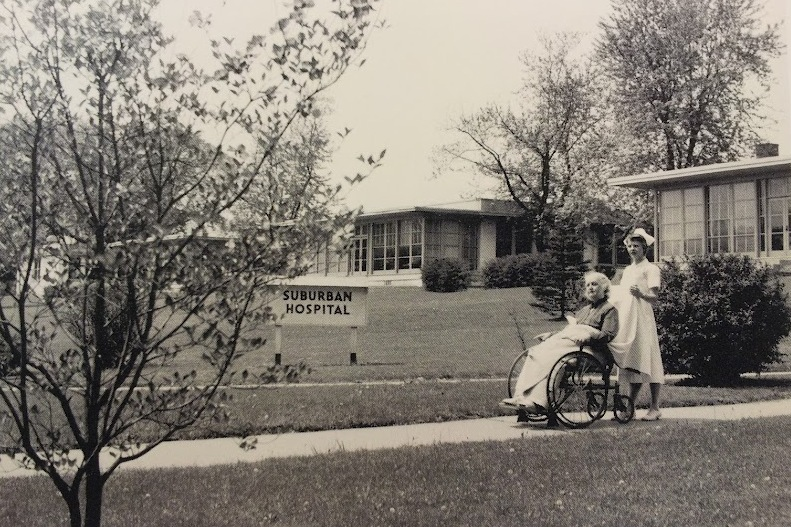 The original Suburban Hospital in 1943.